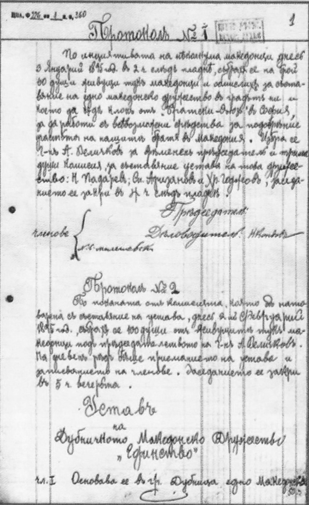 Protocol Dupnitsa macedonian organization